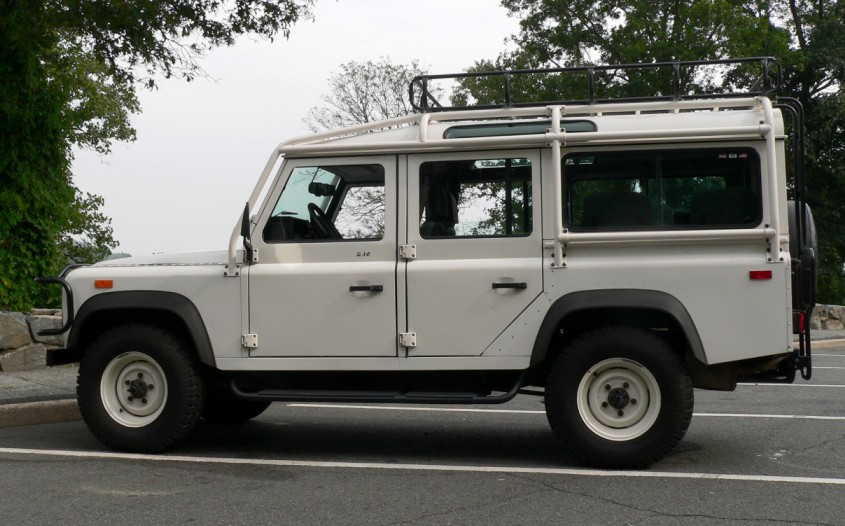 1993 Defender 110, NAS Edition, Serial #233 in Washington DC. I own the vehicle and photographed it on the GW Parkway in Autumn 2006.